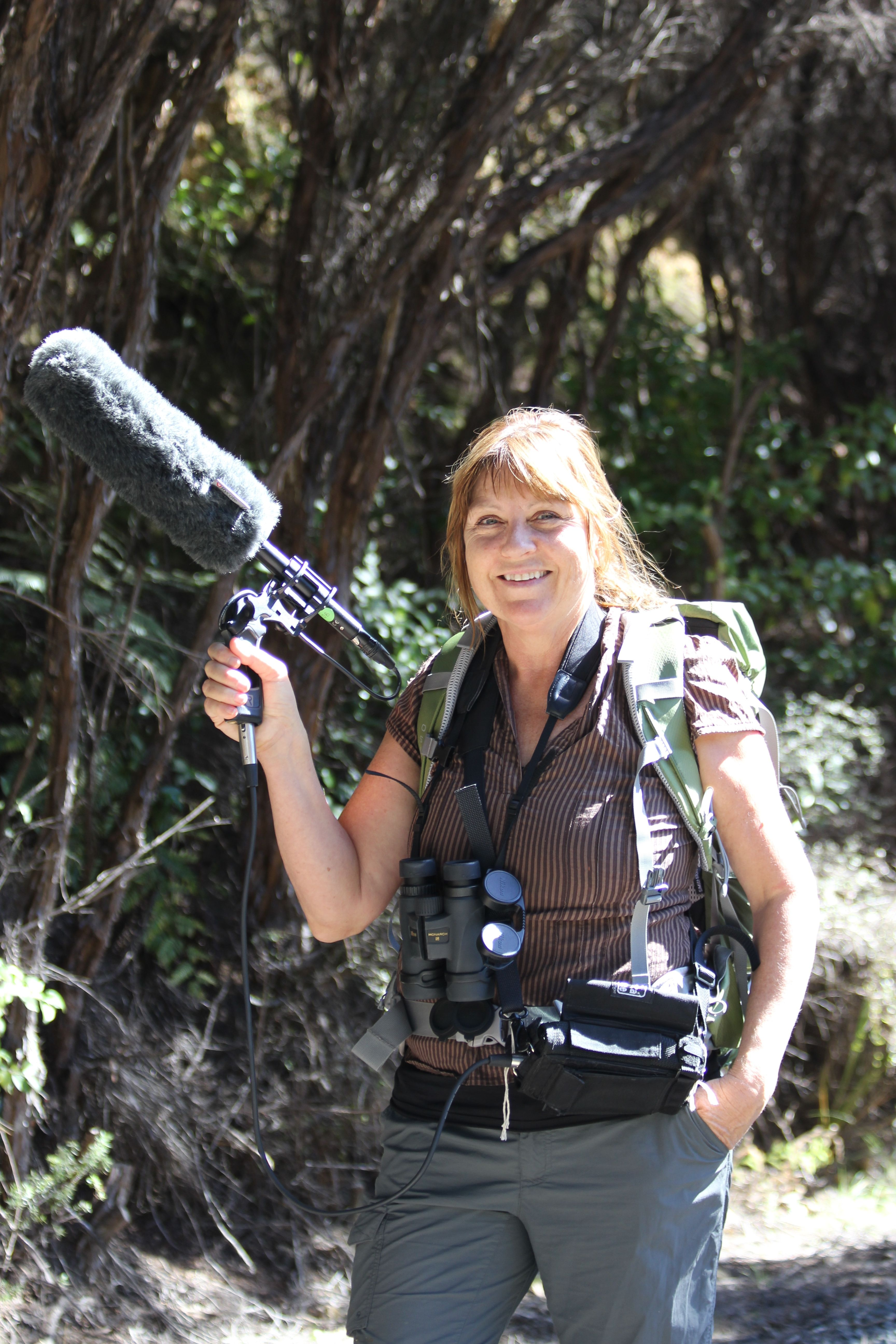 Ecologist Dr Dianne Brunton, head of the Institute of Natural and Mathematical Sciences at Massey University, New Zealand, recording bellbird song at Tawharanui Regional Park.